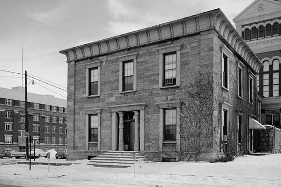 Dubuque County Jail (in 1977) — 36 East Eighth Street, Dubuque (Dubuque County, Iowa) Image courtesy of federal HABS—Historic American Buildings Survey in Iowa project (cropped).